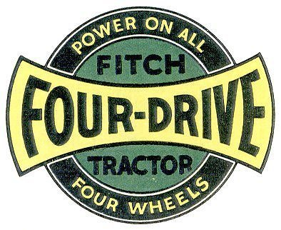 logo used by Four Drive Tractor Company of Big Rapids, Michigan 1918-1930